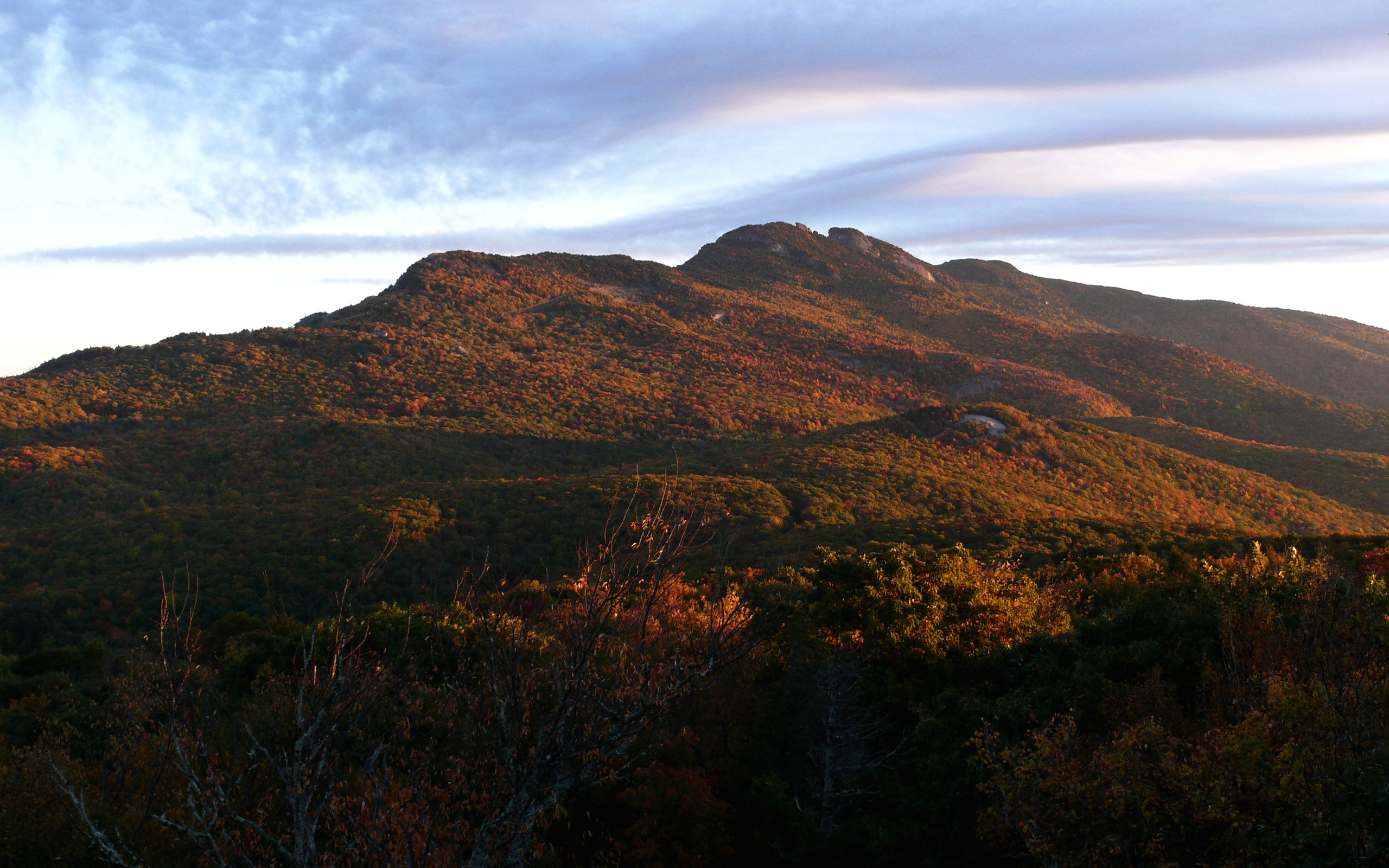 Clouds pour over the Raven Rocks and Calloway Peak, as the rising sun illuminates the brilliant fall foliage on the southeastern face of Grandfather Mountain. Photo taken with a Panasonic Lumix DMC-FZ50 in Avery County, NC, USA.